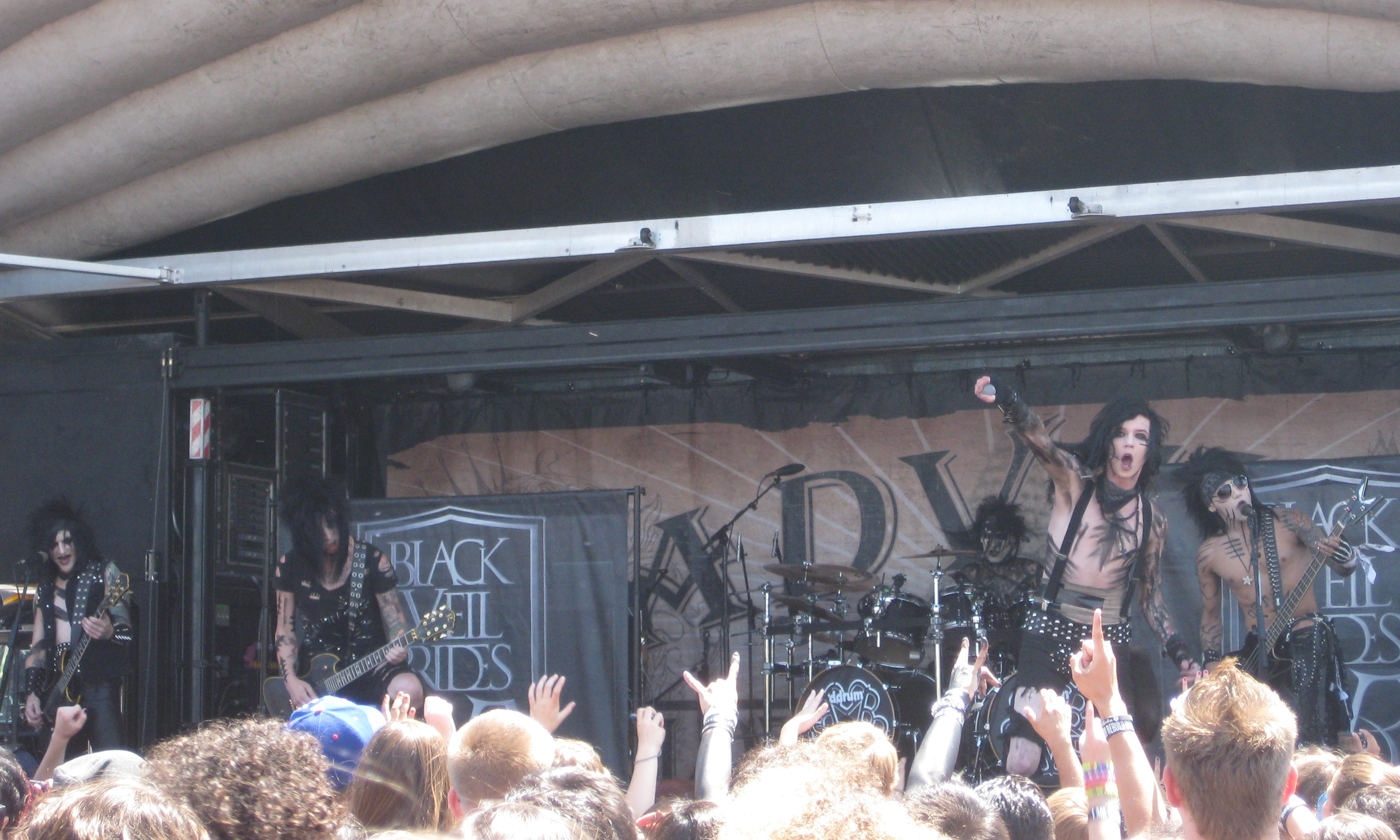 Black Veil Brides performing on the Warped Tour in Chula Vista, California on August 9, 2011. Left to right: rhythm guitarist Jeremy "Jinxx" Ferguson, lead guitarist Jake Pitts, drummer Christian "CC" Coma, singer Andy "Sixx" Biersack, and bassist Ashley Purdy.